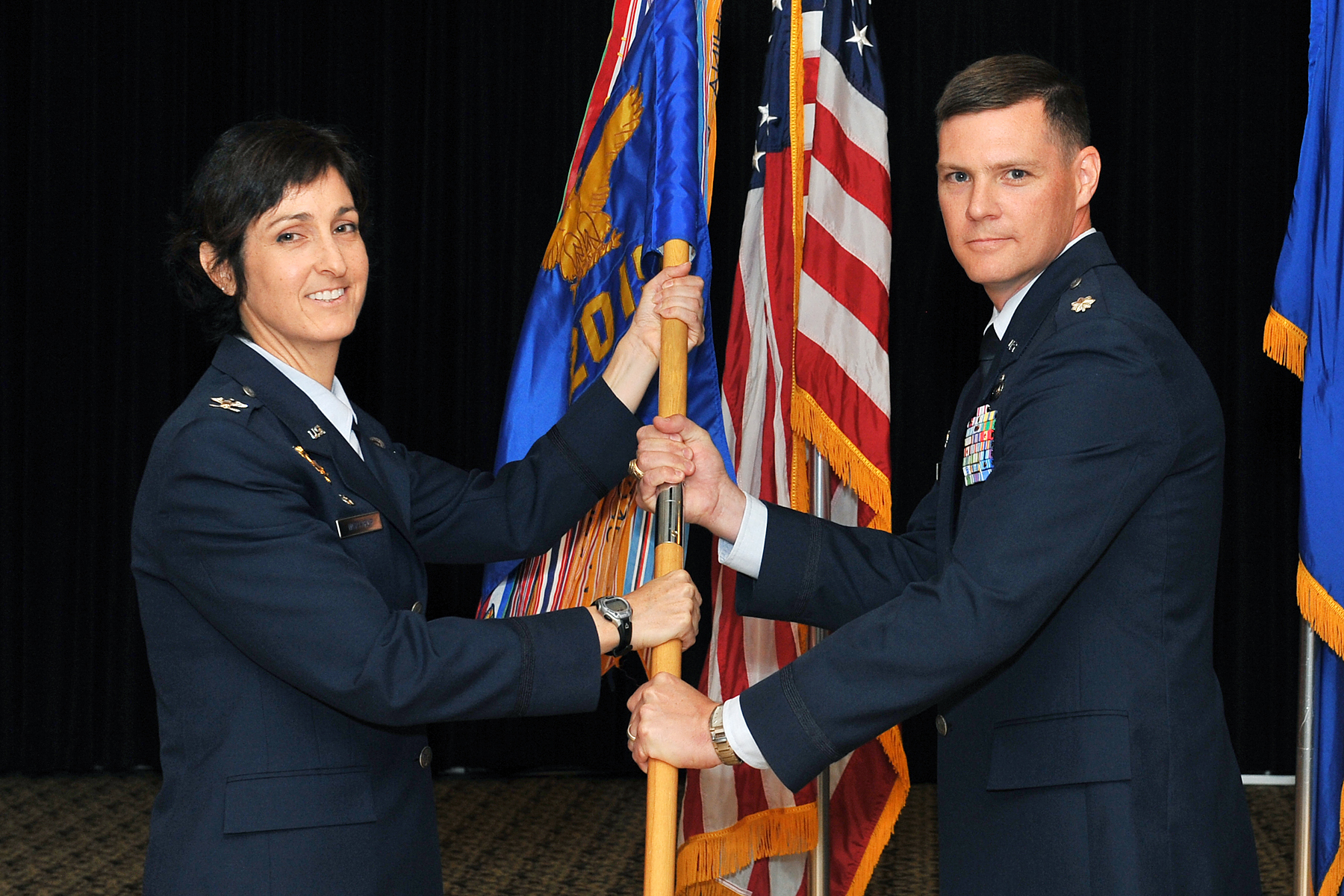 7/28/2011 - U.S. Air Force Col. Carol Northrup, Air Force Targeting Center commander, passed the 20th Intelligence Squadron guidon to incoming commander U.S. Air Force Lt. Col. Patrick Sutherland, during a change of command ceremony inside the Patriot Club at Offutt Air Force Base, Neb., July 28. (U.S. Air Force Photo by Charles Haymond)